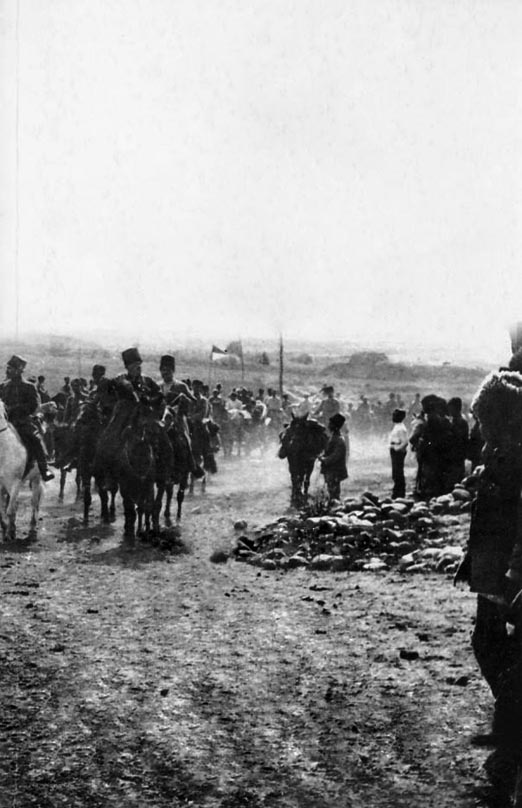 Turkish army moves to Baku for save Azerbaijani people from Bolsheviks and Dashnaks